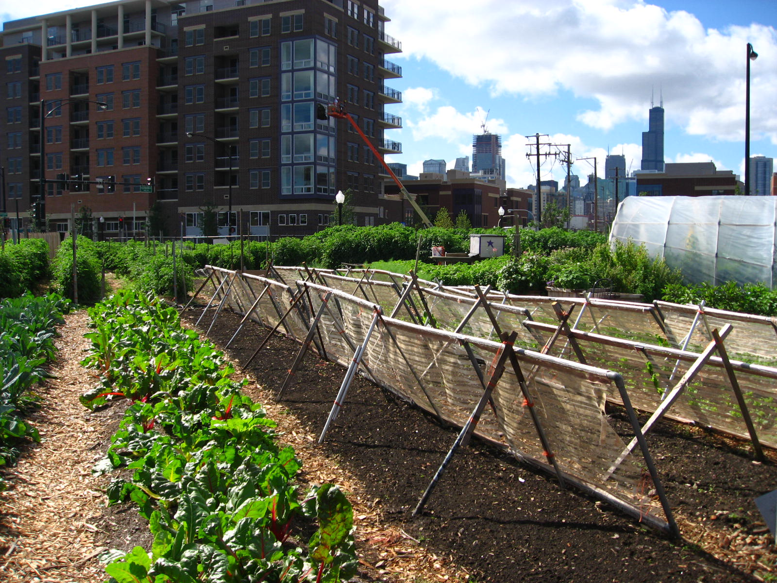 Some new crops being started, protected by shade cloth barriers to the west. Note the new construction in the background. This area used to be all public housing. The high rise "warehouses of the poor" were torn down and are being replaced with mix of market-rate and low-income housing (also called mixed income housing.) The 1.5 acre parcel that City Farm sits on is owned by the City of Chicago and provided, rent-free, to this non-profit initiative. The property is valued at $8 million, however, so it's anyone's guess as to when the city decides to terminate the agreement and City Farm must move again.